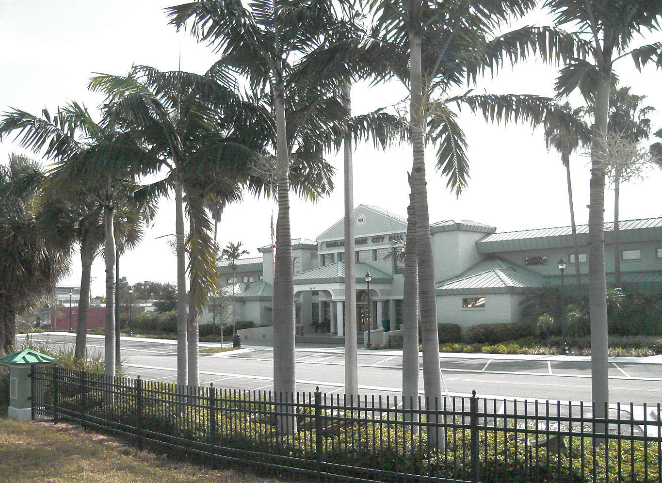 Oakland Park, FL - City Hall on 12th Ave.